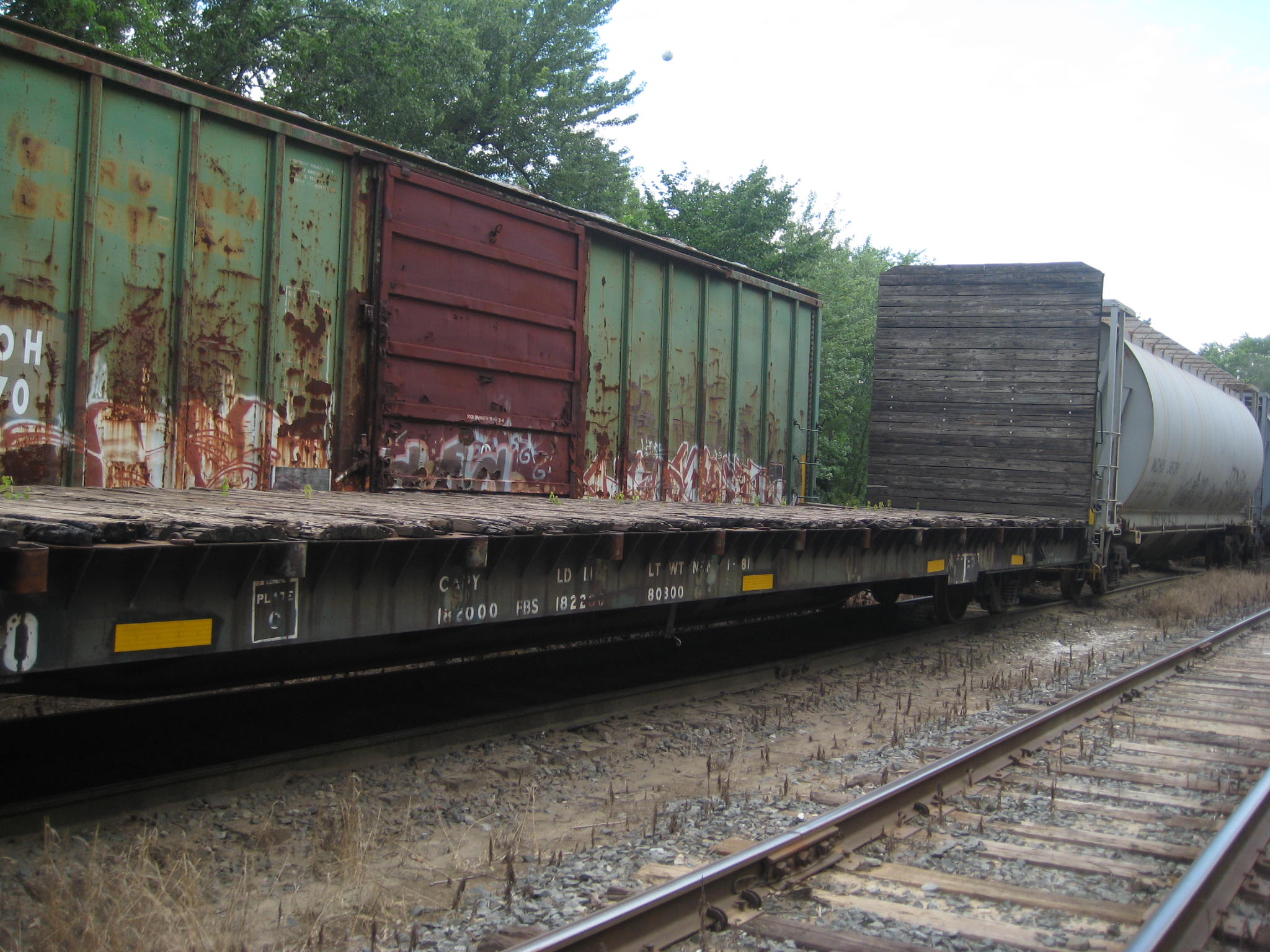 Duryea yard from outside across mainline track -- view looking apx. South and about 210 ft from North Light Tower. Yard track count diminishes successively downwards from 9-10 storage tracks and the mainline track to three visible of 4 tracks here as the yard narrows beyond the green, red boxcars and nearby covered Hopper. Iowa, Chicago and Eastern Railroad / ICE 66210 high-ended, stake sided flatcar sits at the foreground of the image.